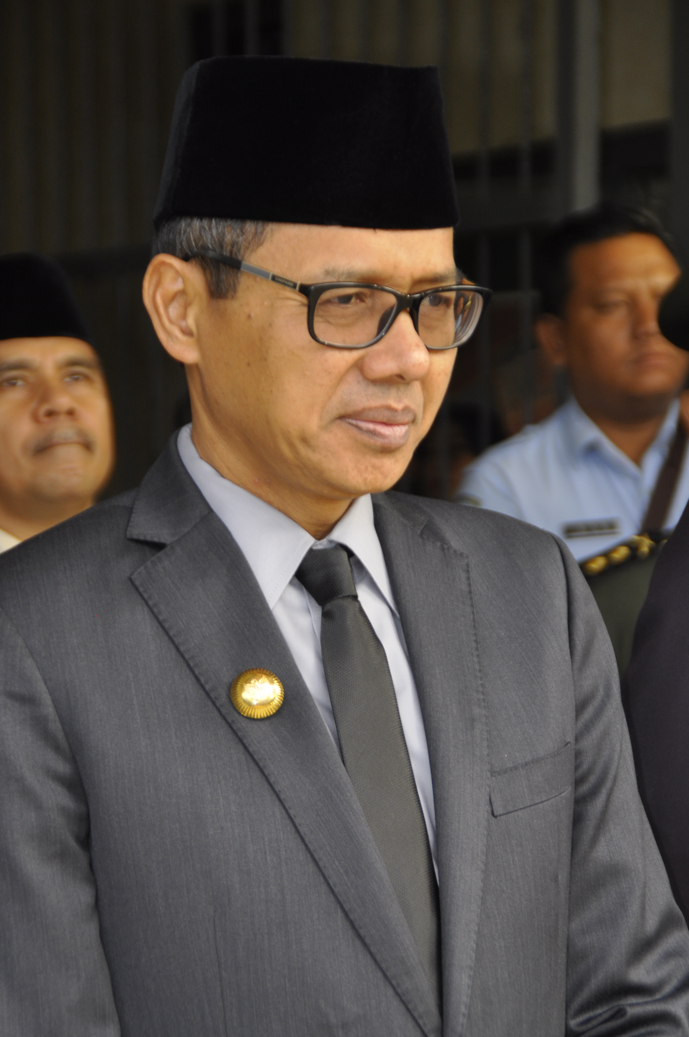 Irwan Prayitno Okt 2016